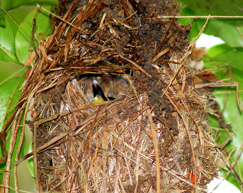 A nest of a Common Tody-flycatcher (Todirostrum cinereum)